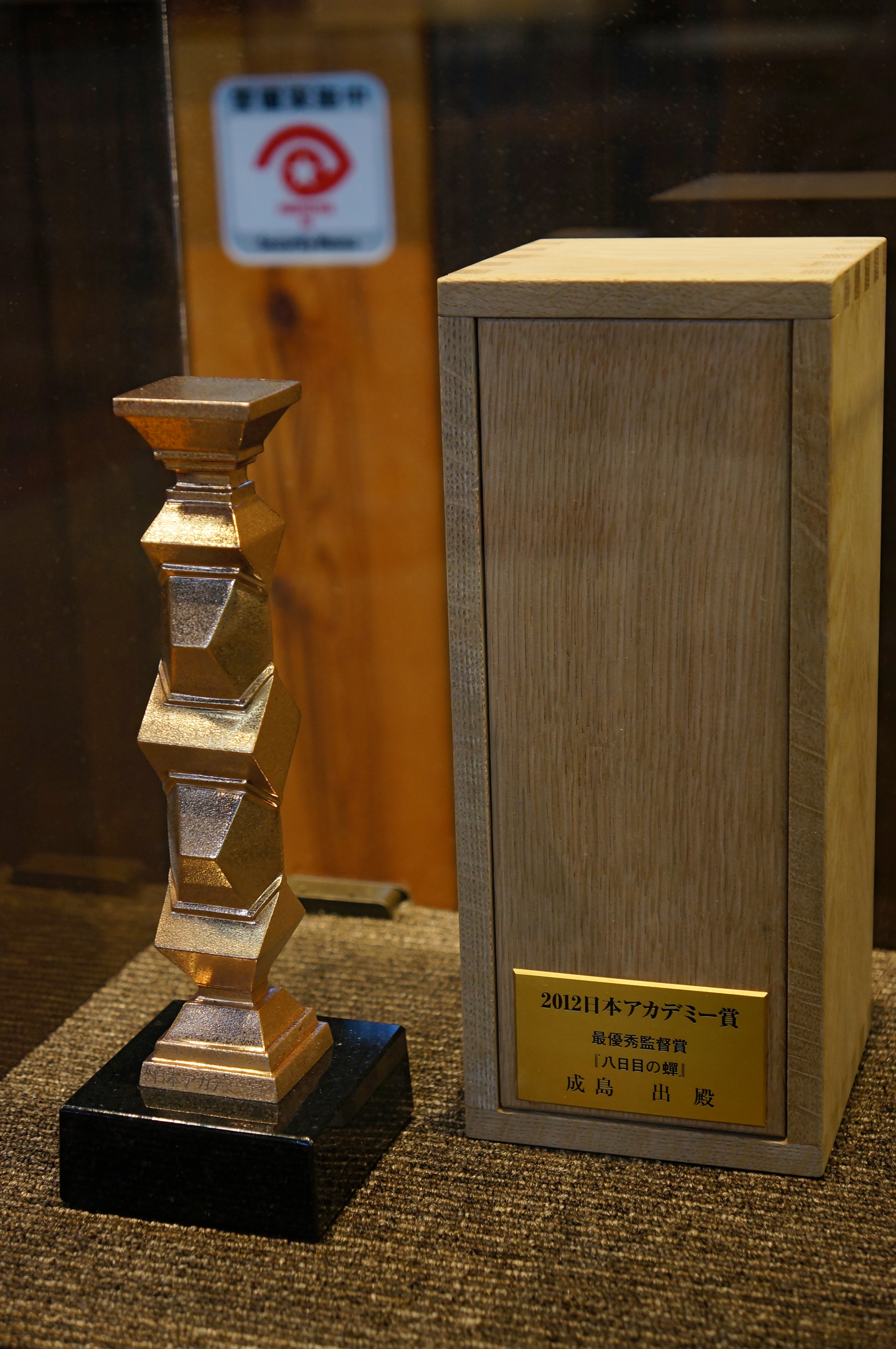 Trophy of the Japan Academy Prize. In 2012, best director was awarded to Izuru Narushima for the film Yōkame no semi (八日目の蝉). The amusement park of "Twenty-four eyes" in Shodoshima Island, Kagawa Prefecture, Japan)